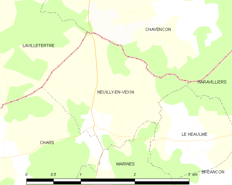 Map of French municipality Neuilly-en-Vexin